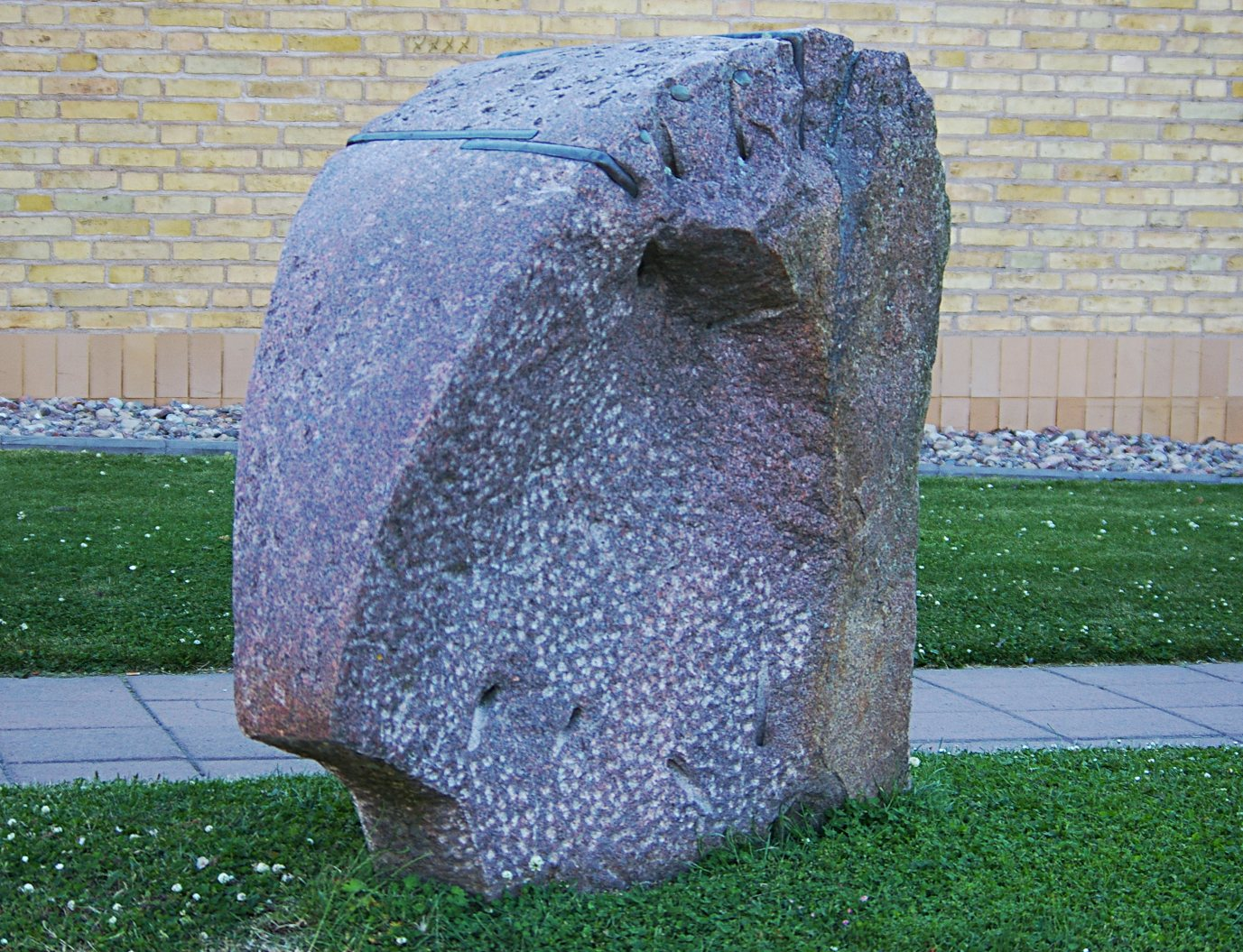 Tjurpannan (1990), statue in red granite by Agneta Stening (1954–), erected near Östergötland County Museum in Linköping, Sweden.